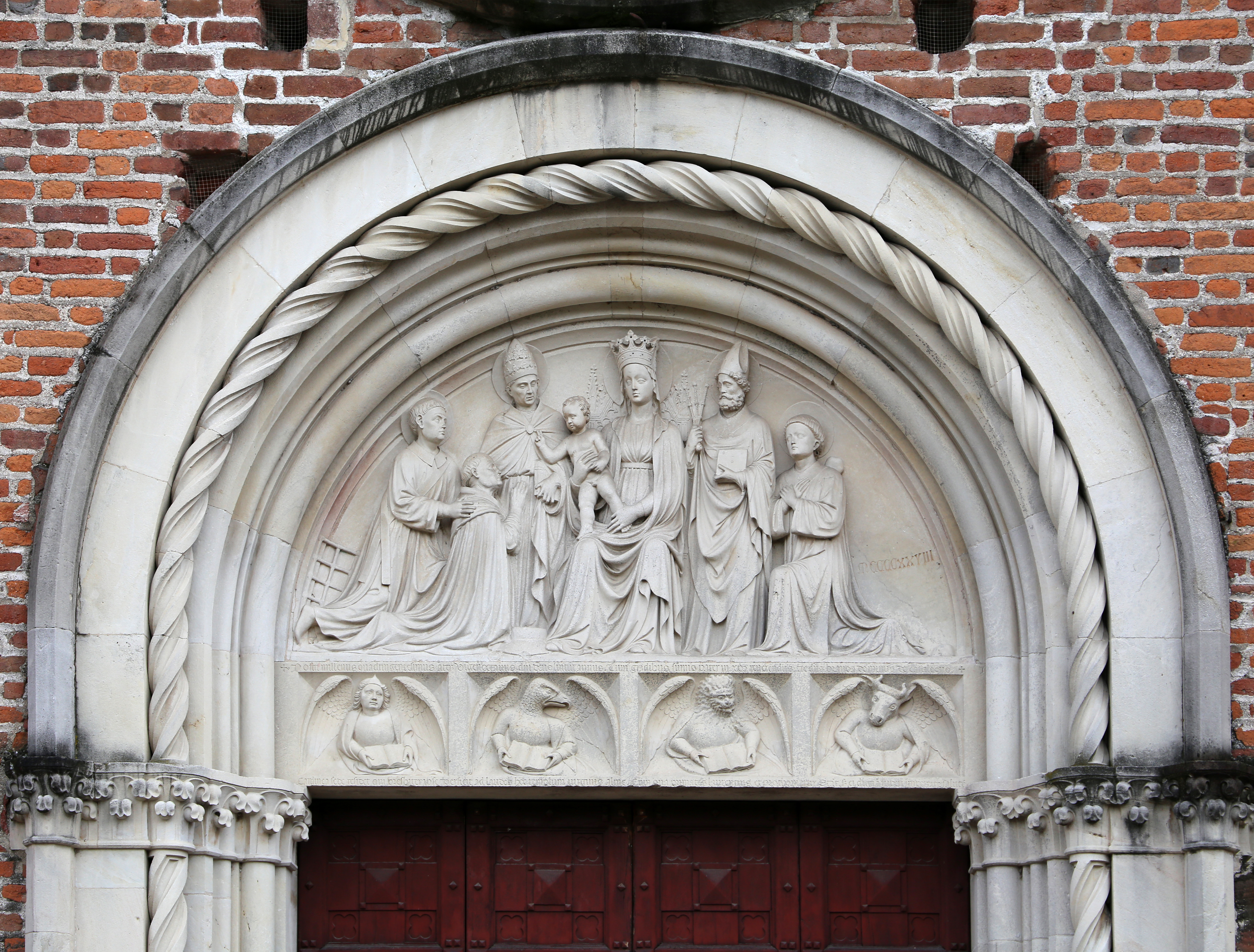 Collegiata (Castiglione Olona)